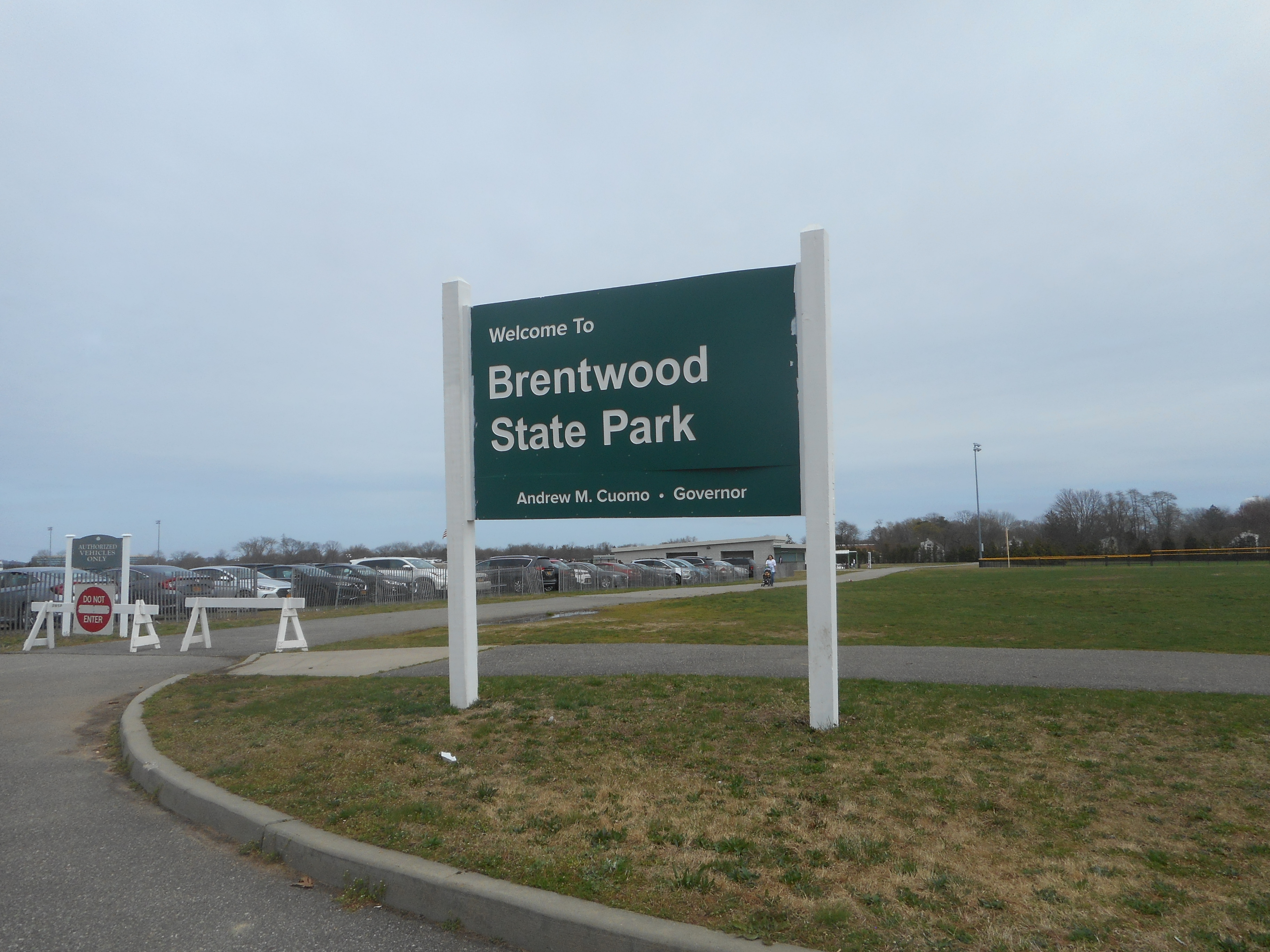 Closer view of the sign inside the entrance to Brentwood State Park along Suffolk CR 13 in Brentwood, New York. Unlike the previous version, this was not taken from inside my car.